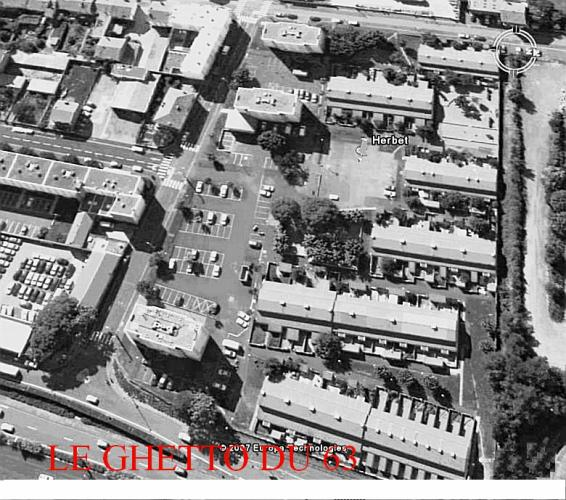 Le quartier d ' Herbet est considéré comme un bidonville par les habitants de Clermont- Ferrand. La mairie fait tout pour que ce quartier ne soit pas médiatisé et laissé à l' oubli